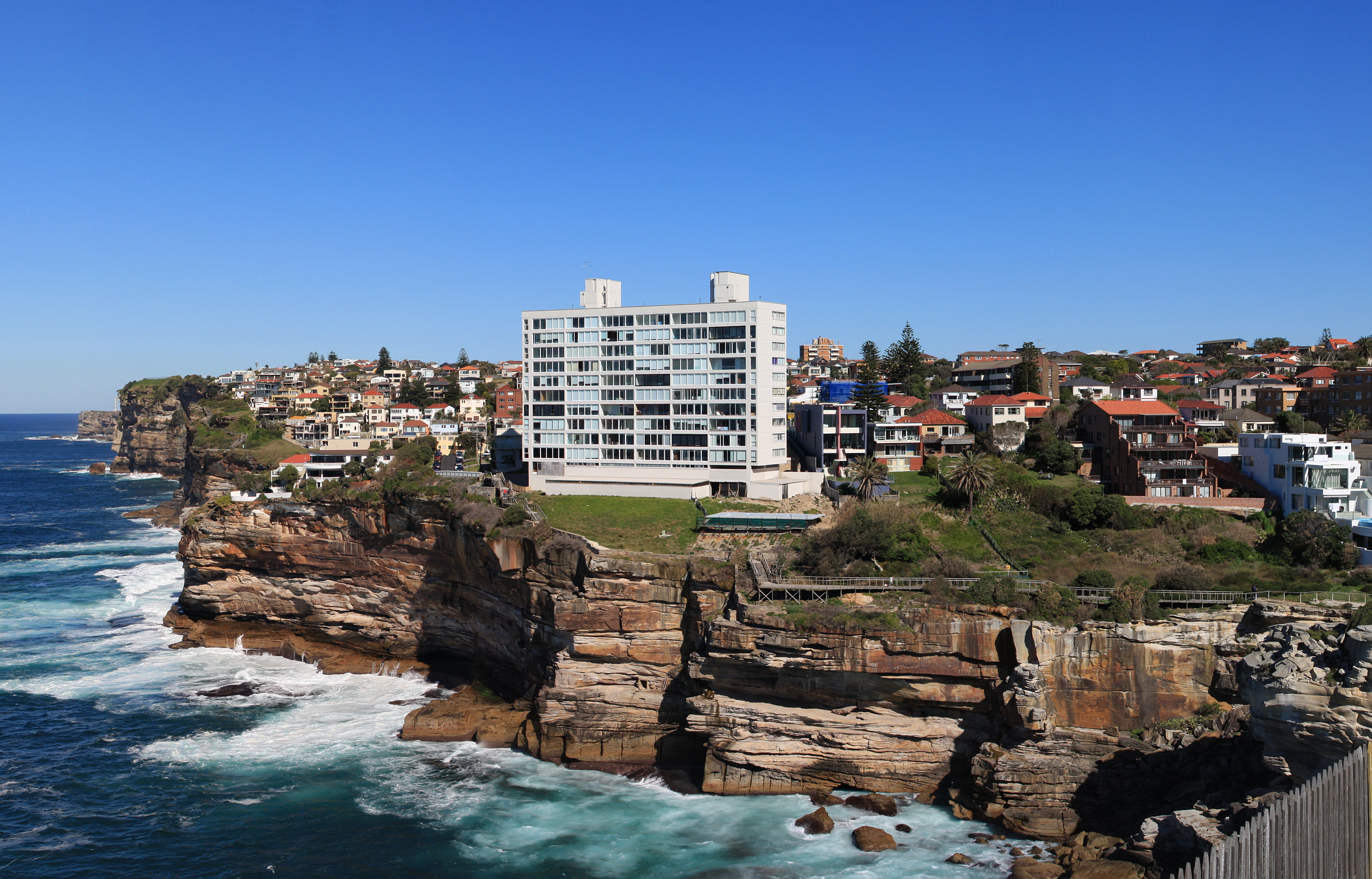 Dover Heights from Watsons Bay